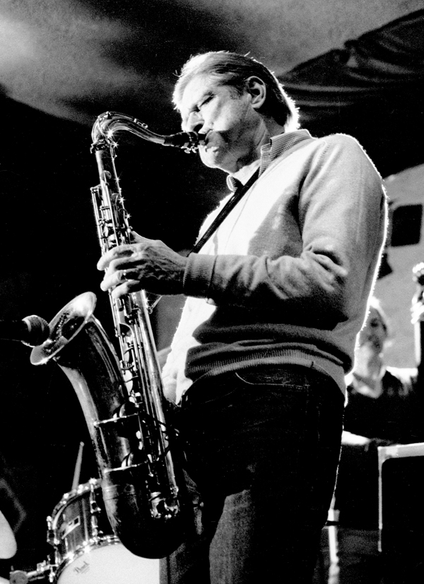 Zoot Sims @ Keystone Korner, San Francisco CA 1983 Photo by Brian McMillen /